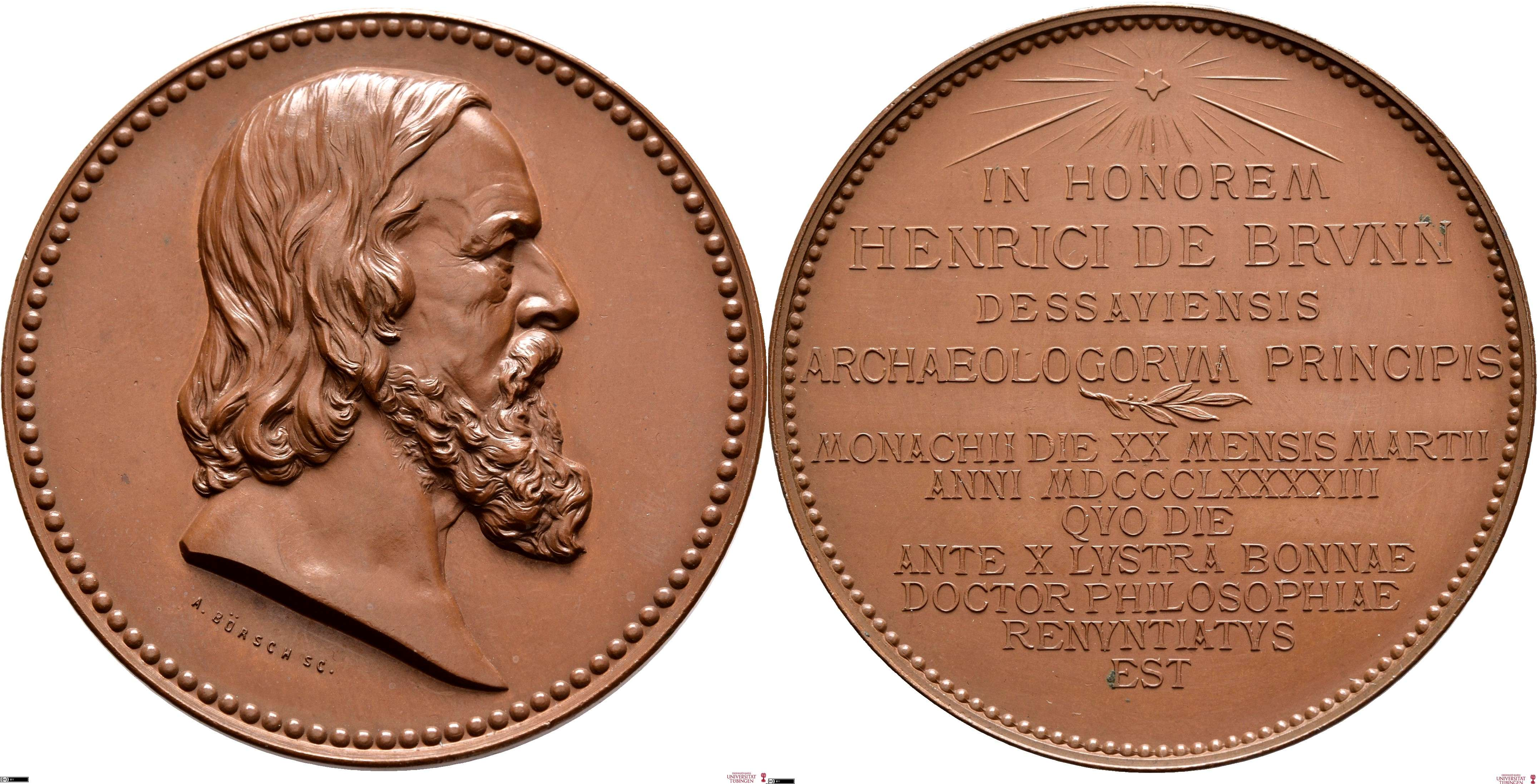 The front side depicts a bust of Brunn with the signature of the german engraver/sculptor Alois Börsch. The back side names in Latin the occasion for strucking the meal beeing Brunns 50th doctoral anniversary.